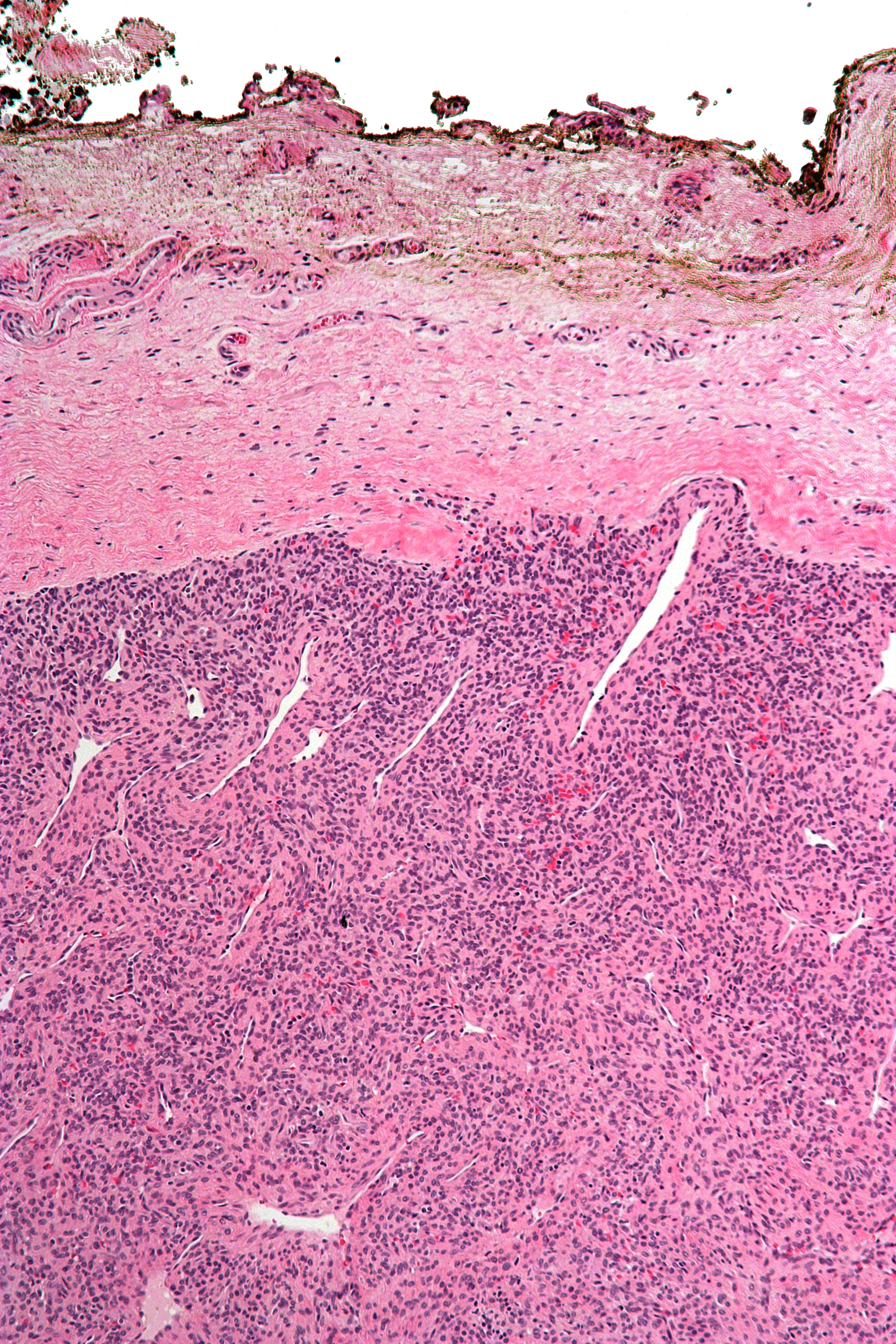 Intermediate magnification micrograph of a myopericytoma, also glomangiopericytoma. H&E stain. Related images Low mag. Intermed. mag. High mag. High mag. Very high mag.